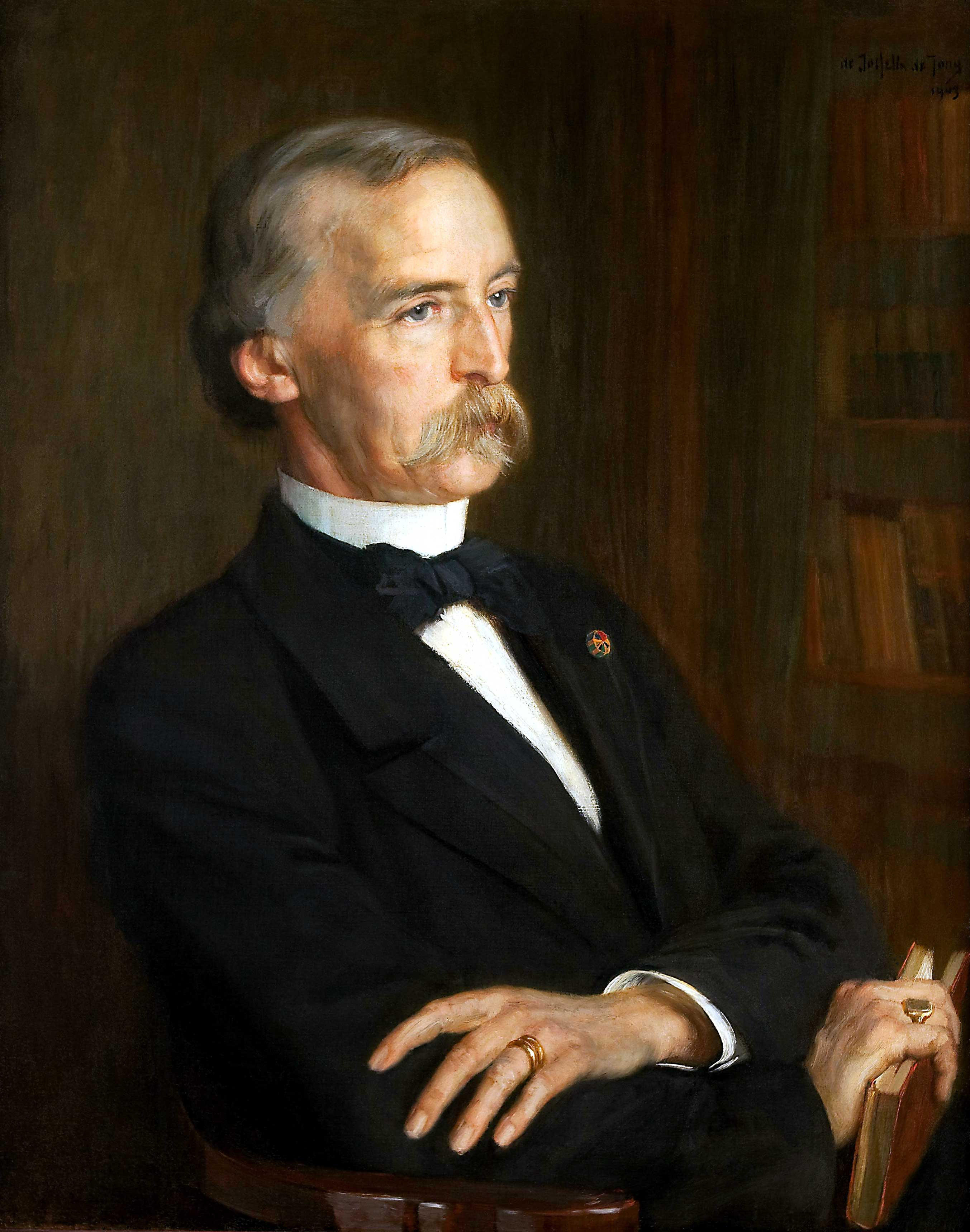 Cornelis Petrus Tiele (1830-1902) Dutch Protestant theologian